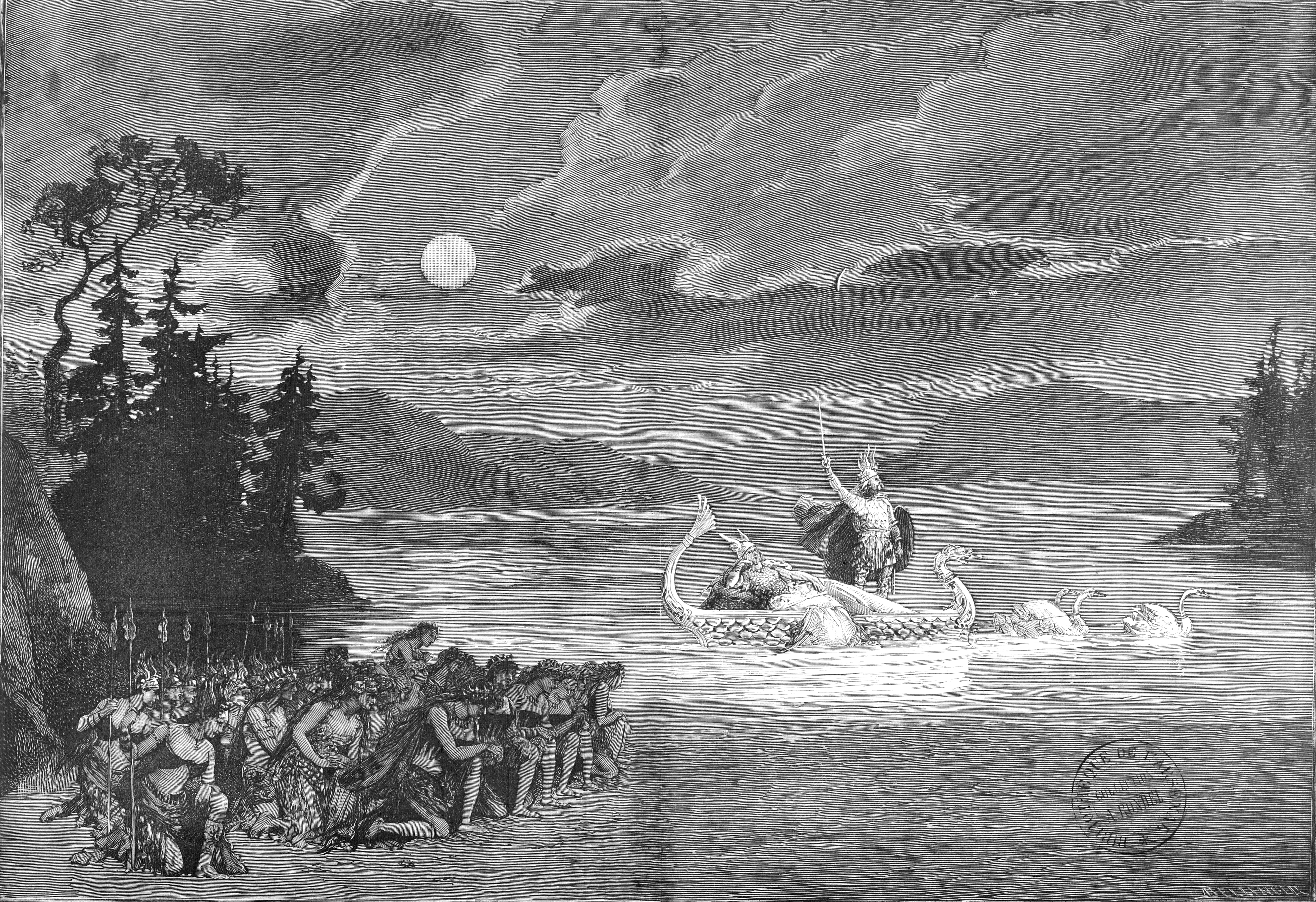 Ernest Reyer - Sigurd - Paris, Opéra, 12-06-1885 - 5 - act 2, tableau 4